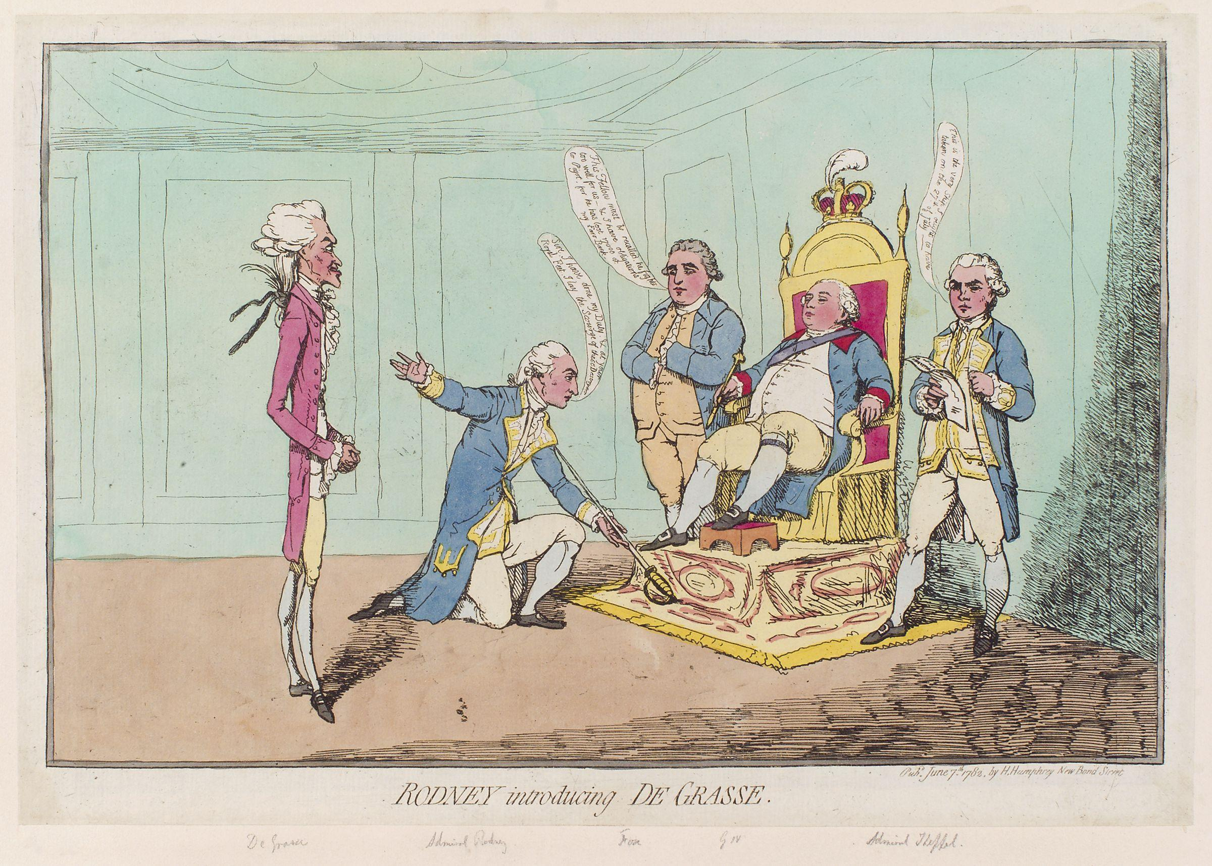 Rodney introducing de Grasse, by James Gillray (died 1815), published 1782. All images in this batch have been confirmed as author died before 1939 according to the official death date listed by the NPG.